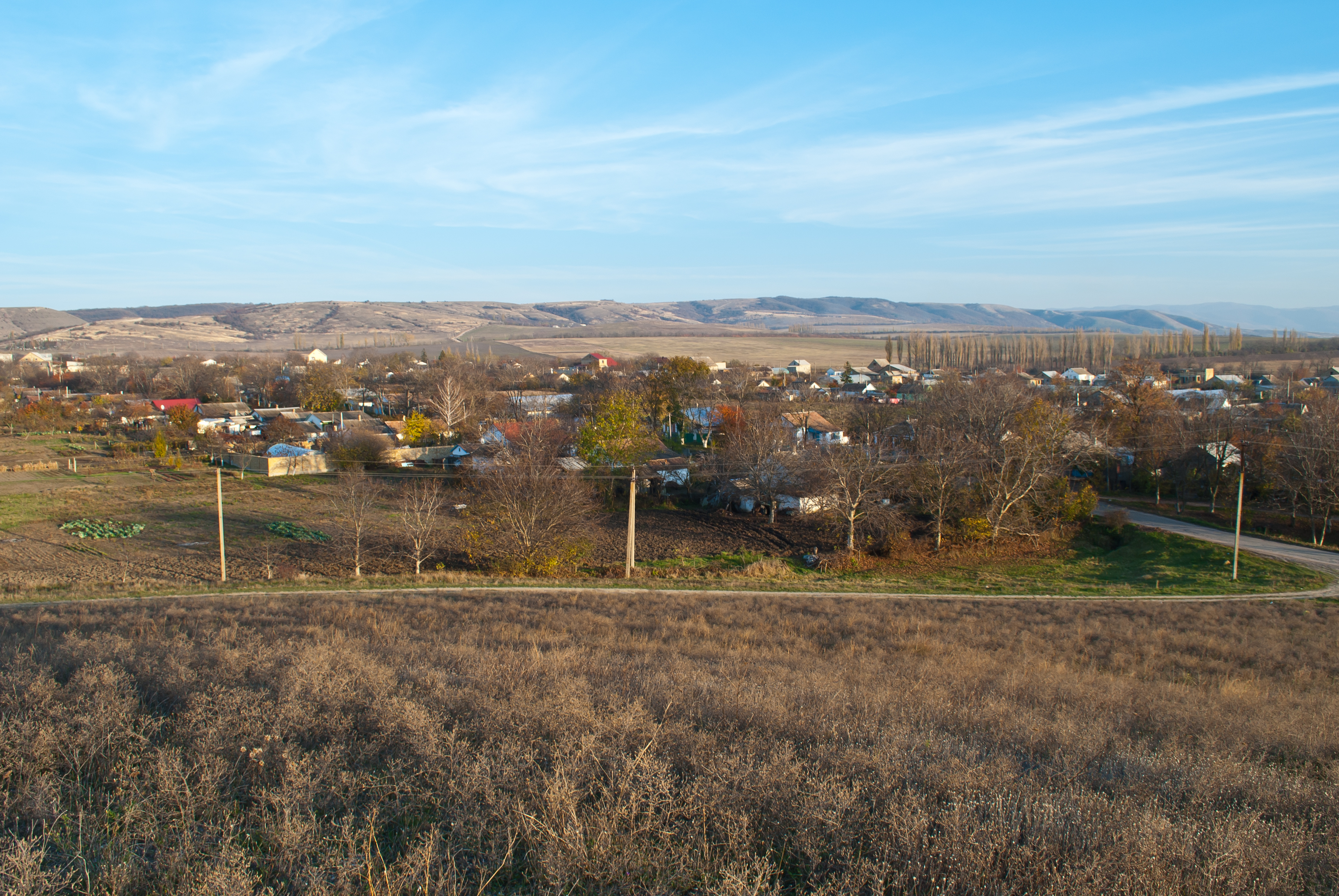 General view on the village Ivanovka (Simferopol district, Crimea).